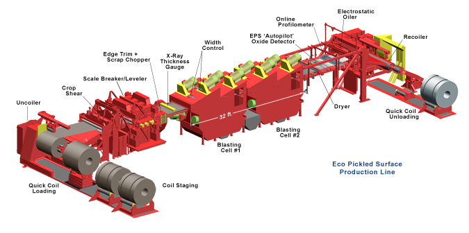 Model of EPS processing line